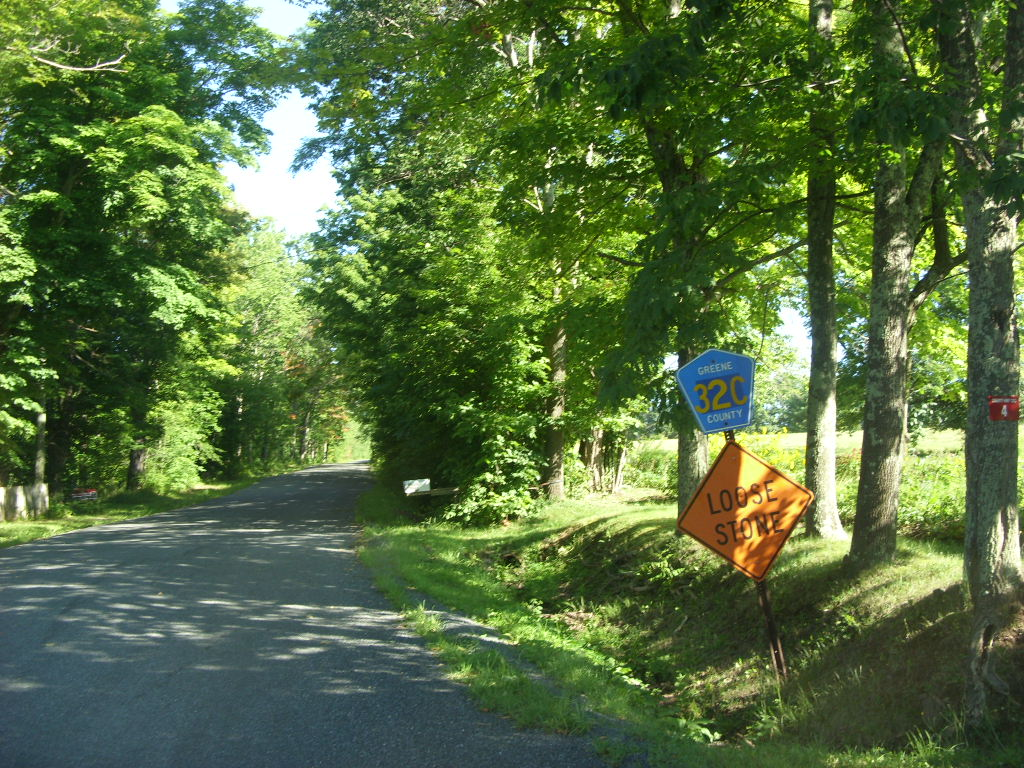 The first and only reassurance marker on northbound Greene County Route 32C in Ashland, New York.